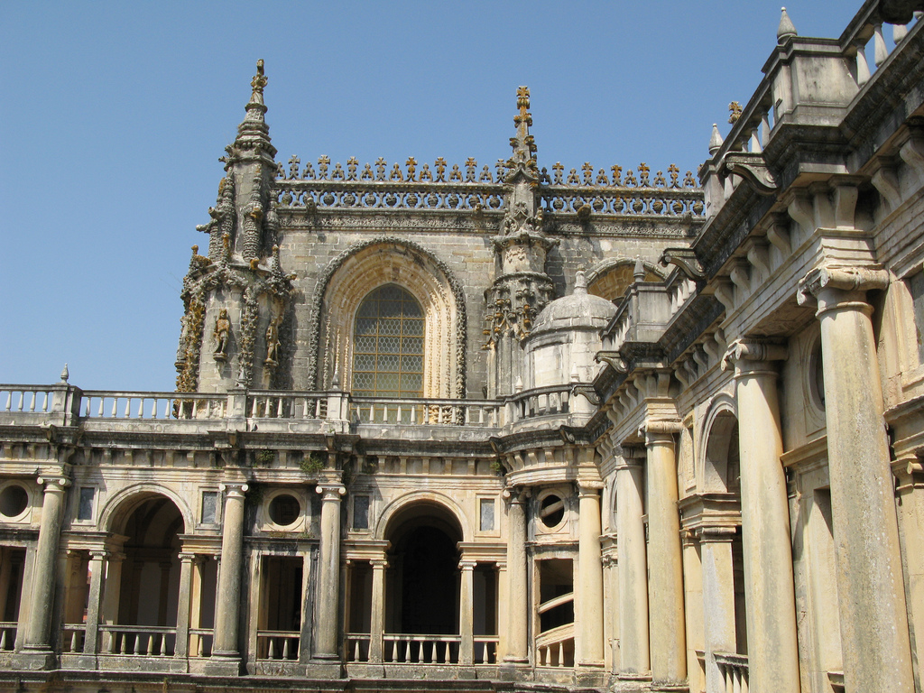 Manueline church and Renaissance cloisters of Christ Convent, Tomar